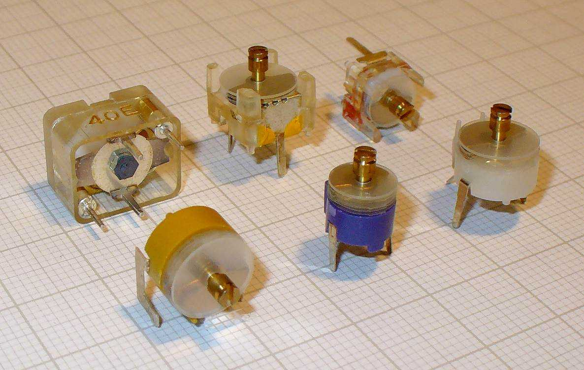 Polyethylene trimmer capacitors